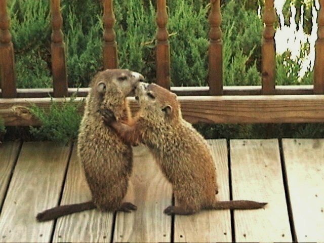 Juvenile groundhog siblings play-fighting